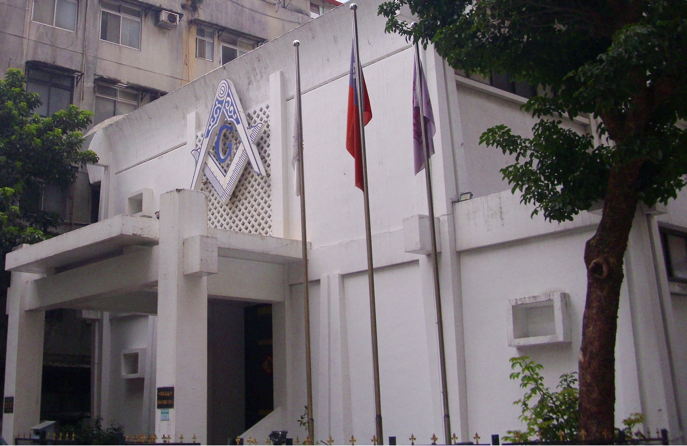 The Grand Lodge of Free and Accepted Masons of China, located in Taipei, Taiwan (ROC).